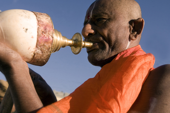 A Hindu priest blowing his conch during a puja in Tirupati, India.